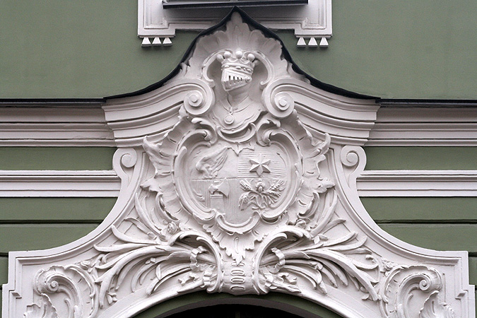 Hovansky Coat of arms Ustinov